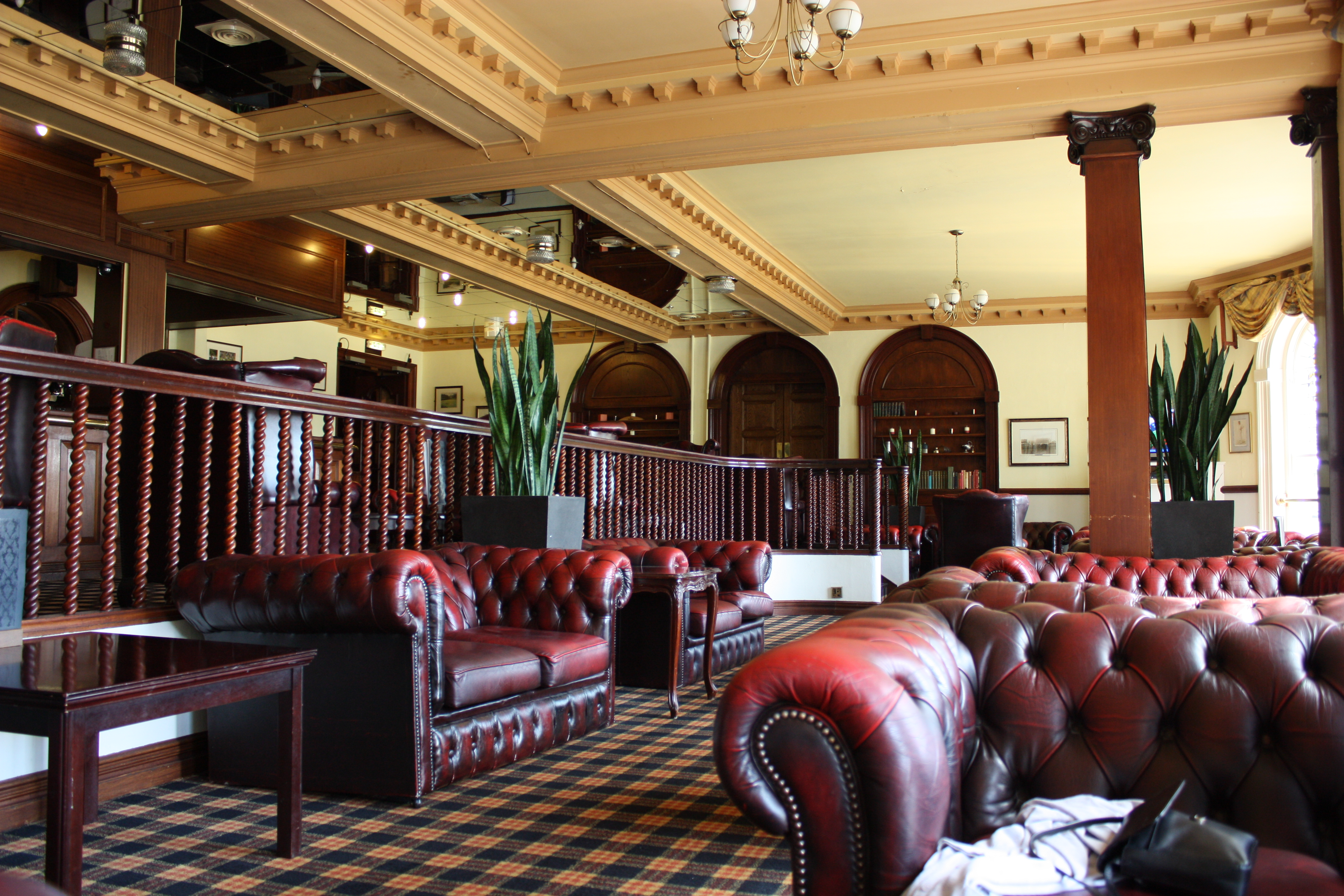 University Arms Hotel, Regent Street, Cambridge, Cambridgeshire, England, July 2010